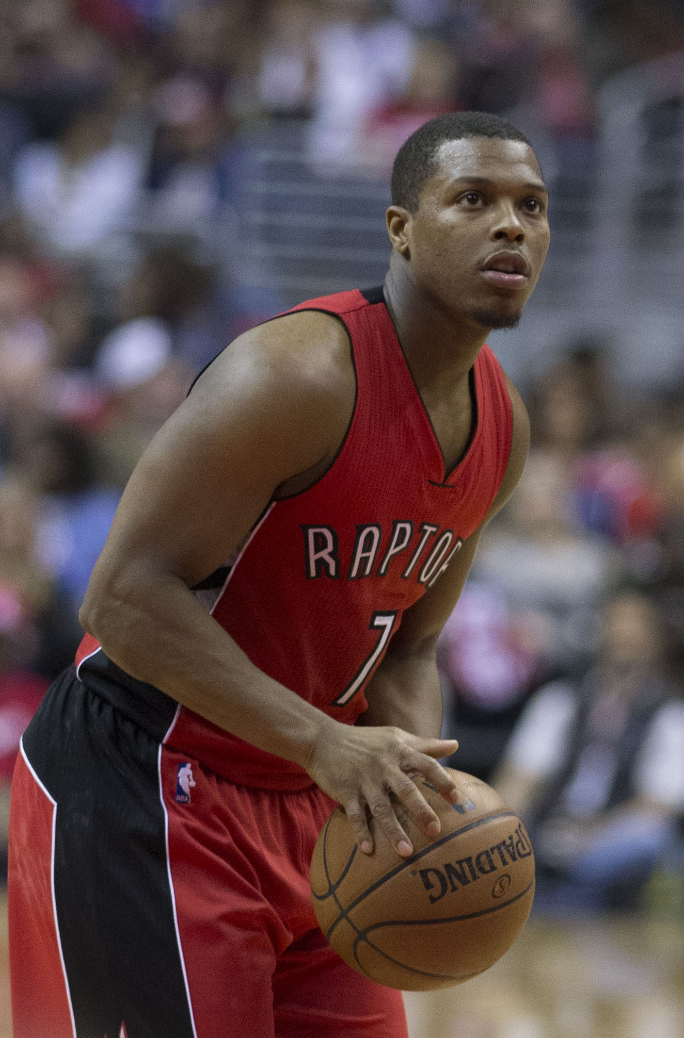 Toronto at Washington 04/26/15